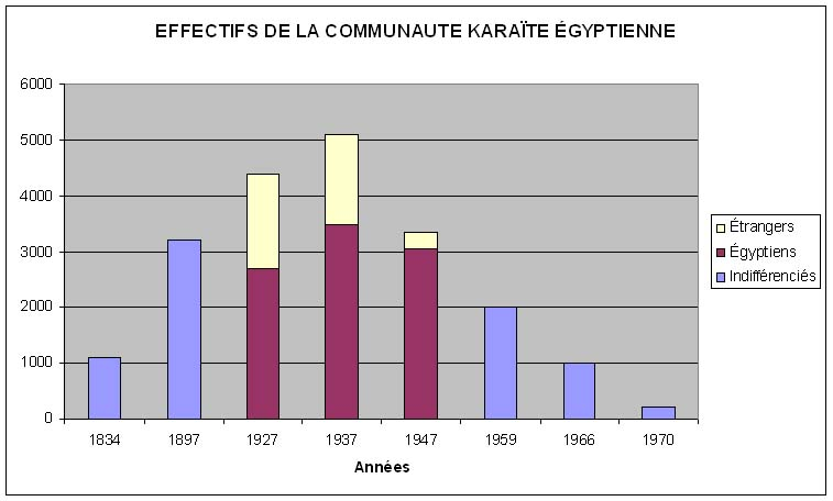 Evolution of the karaite population of Egypt beetween 1834 and 1970